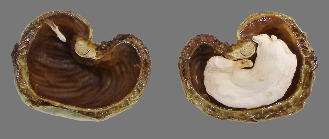 Cut of a cashew shell with the fresh nut inside. The liquid visible at the cut edges is the resin from the shell. Town of Prainha near Fortaleza, Ceará, Brazil.